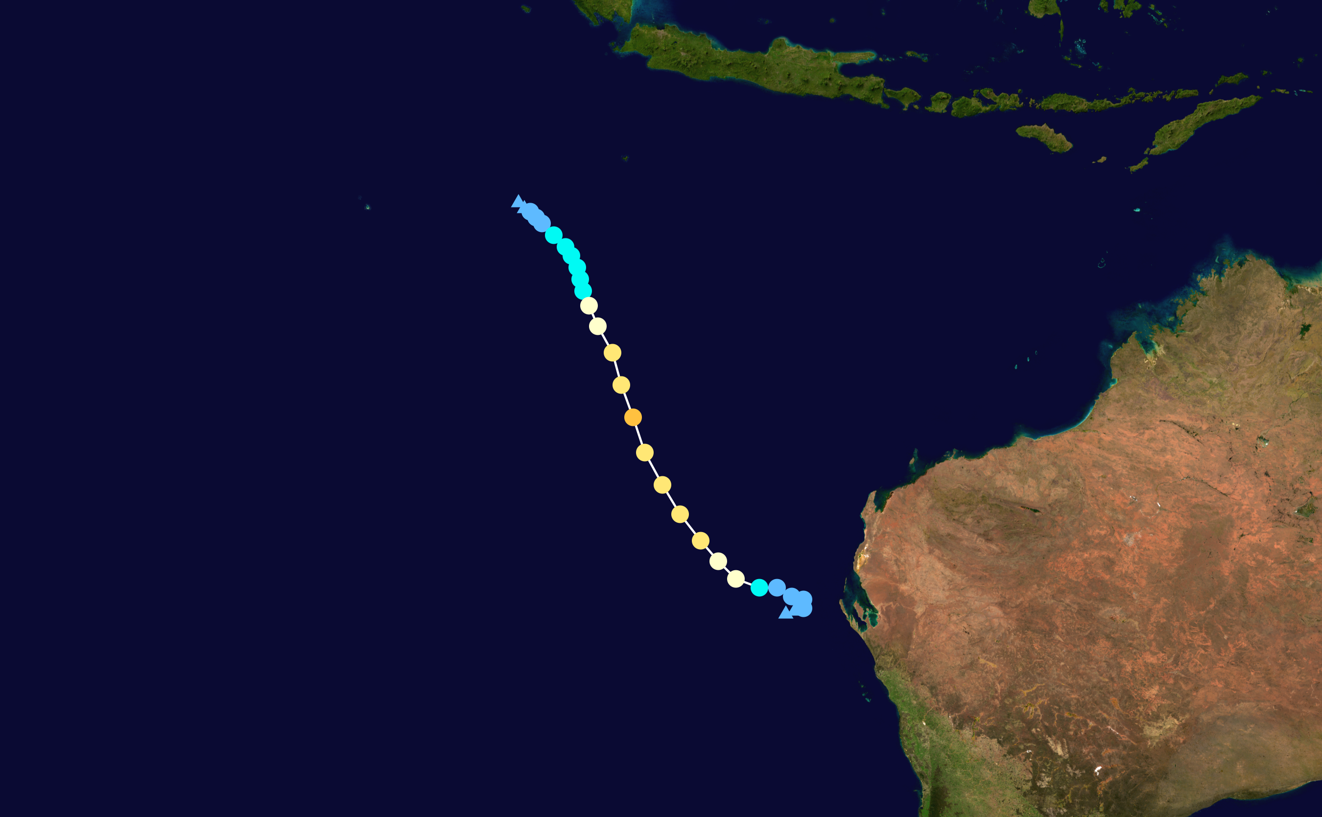 Track map of Severe Tropical Cyclone Pancho of the 2007-08 Australian region cyclone season. The points show the location of the storm at 6-hour intervals. The colour represents the storm's maximum sustained wind speeds as classified in the Saffir–Simpson scale (see below), and the shape of the data points represent the nature of the storm, according to the legend below. Saffir–Simpson scale Tropical depression≤38 mph≤62 km/h Category 3111–129 mph178–208 km/h Tropical storm39–73 mph63–118 km/h Category 4130–156 mph209–251 km/h Category 174–95 mph119–153 km/h Category 5≥157 mph≥252 km/h Category 296–110 mph154–177 km/h Unknown Storm type Tropical cyclone Subtropical cyclone Extratropical cyclone / Remnant low / Tropical disturbance / Monsoon depression